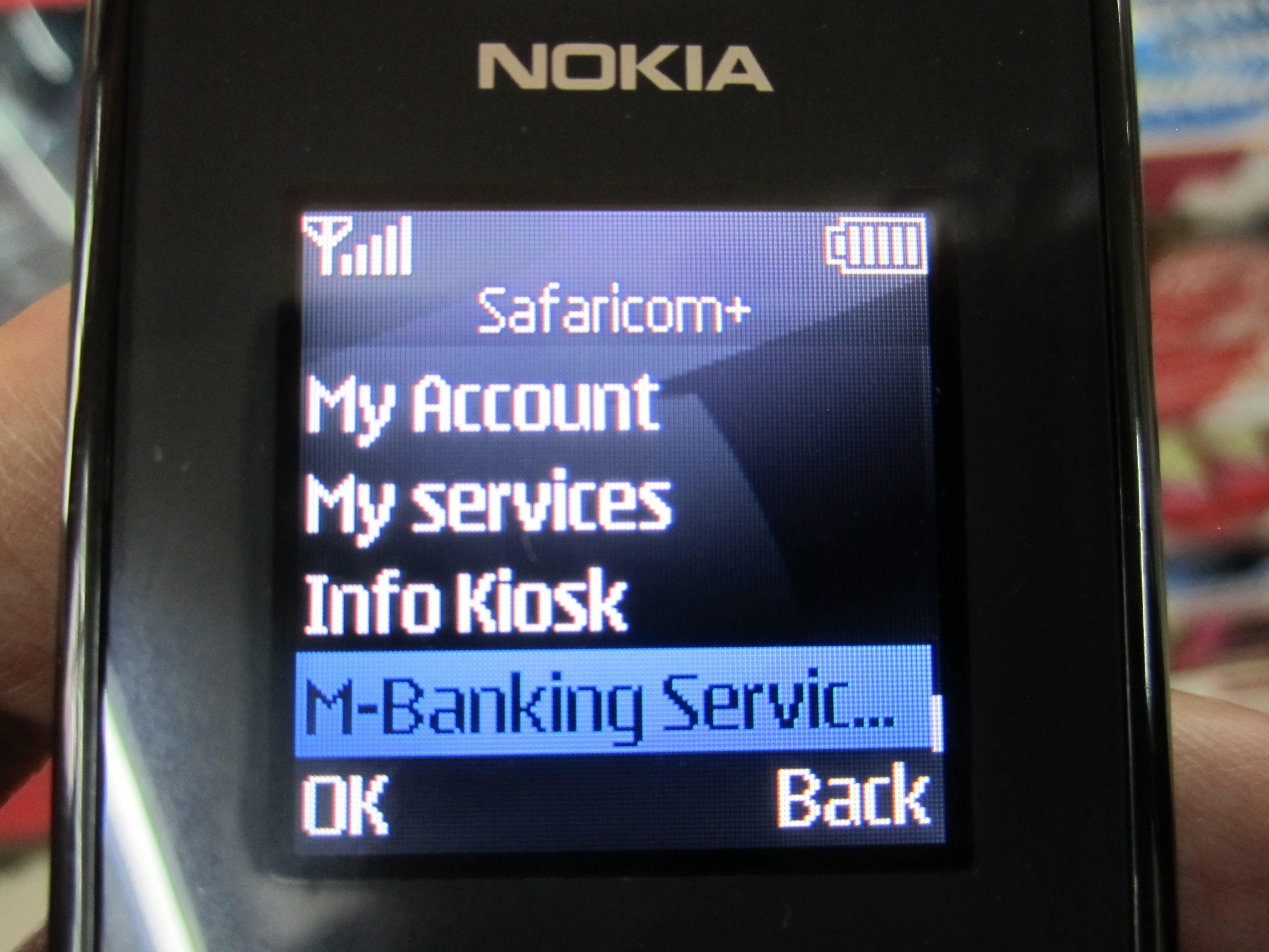 Safaricom's M-Pesa service screen being displayed on a Nokia feature phone.